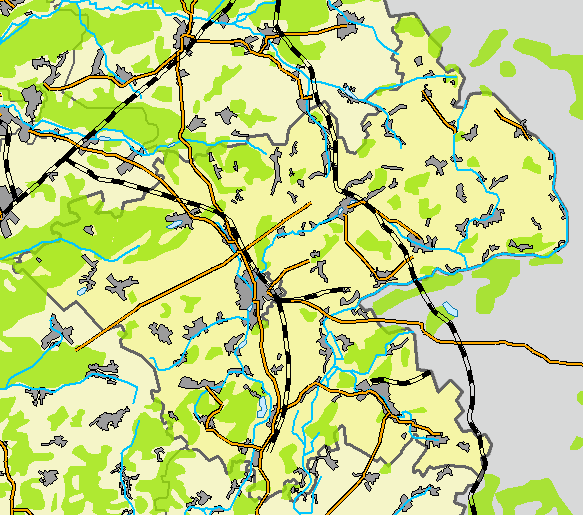 Hlukhiv Raion, Sumy oblast, Ukraine